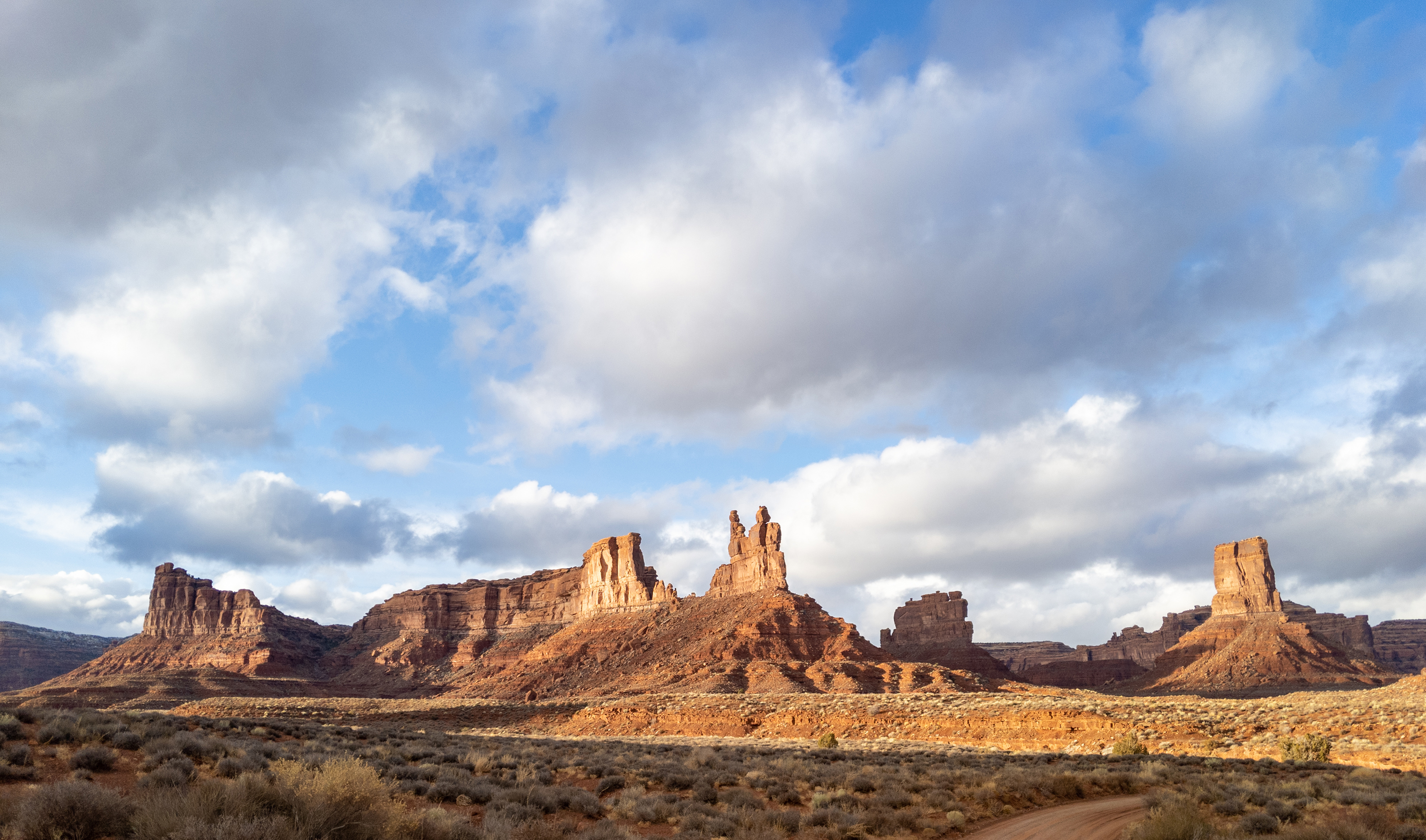 The Valley of the Gods is a scenic sandstone valley near Mexican Hat in San Juan County, southeastern Utah, United States. Formerly part of Bears Ears National Monument, Valley of the Gods is located north of Monument Valley across the San Juan River and has rock formations similar to those in Monument Valley with tall, reddish brown mesas, buttes, towers and mushroom rocksu2014remnants of an ancient landscape.nnThe Valley of the Gods may be toured via a 17-mile (27 km) gravel road (San Juan County Road 242) that winds around the formations. The road is rather steep and bumpy in parts but is passable by non-four-wheel drive vehicles in dry weather. The western end joins Utah State Route 261 shortly before its 1,200-foot (370 m) ascent up Cedar Mesa at Moki Dugway, while the eastern end starts nine miles (14 km) from the town of Mexican Hat along U.S. Route 163 and heads north, initially crossing flat, open land and following the course of Lime Creek, a seasonal wash, before turning west toward the buttes and pinnacles. In addition to the gravel road, the area is also crisscrossed by off-road dirt trails.nnThe valley has been used as the backdrop for western movies, commercials and television shows including two episodes of the BBC science fiction show Doctor Who: "The Impossible Astronaut" and "Day of the Moon", the second of which includes an explicit on-screen reference to the filming location. The 1984-1987 CBS TV show Airwolf is often mistakenly identified as being filmed in Valley of the Gods due to an in-episode mention but was filmed in Monument ValleynnSource: Wikipedian